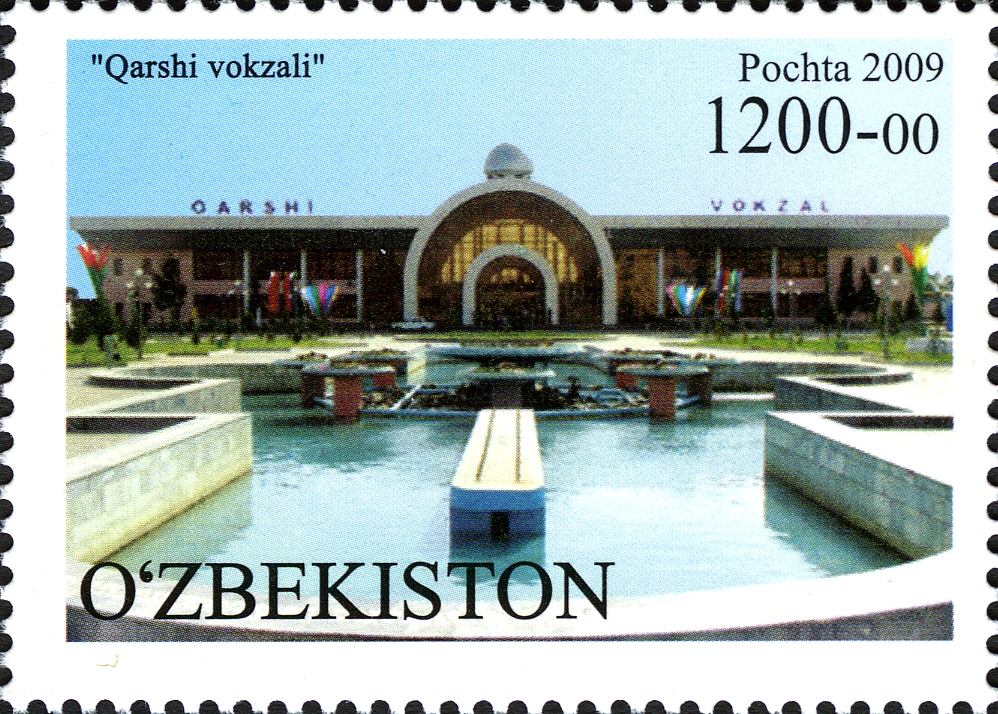 Stamps of Uzbekistan, 2010